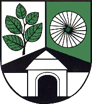 Coat of arms of Kleinbartloff